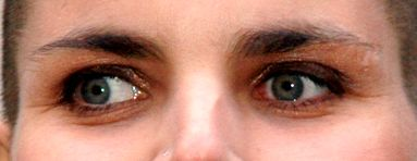 Exotropia of the right eye